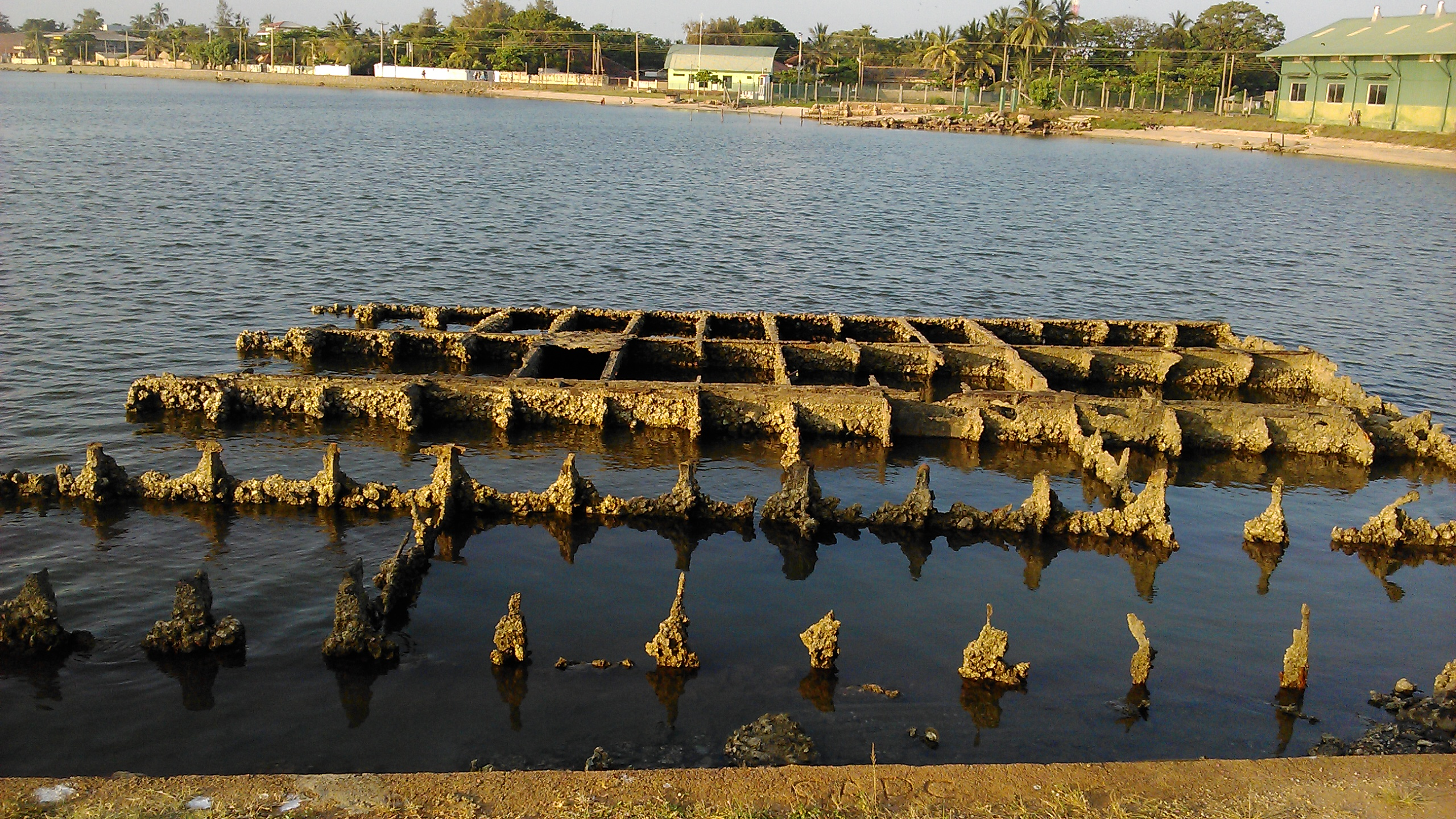 Parts of a sunken ship in Trincomalee harbour